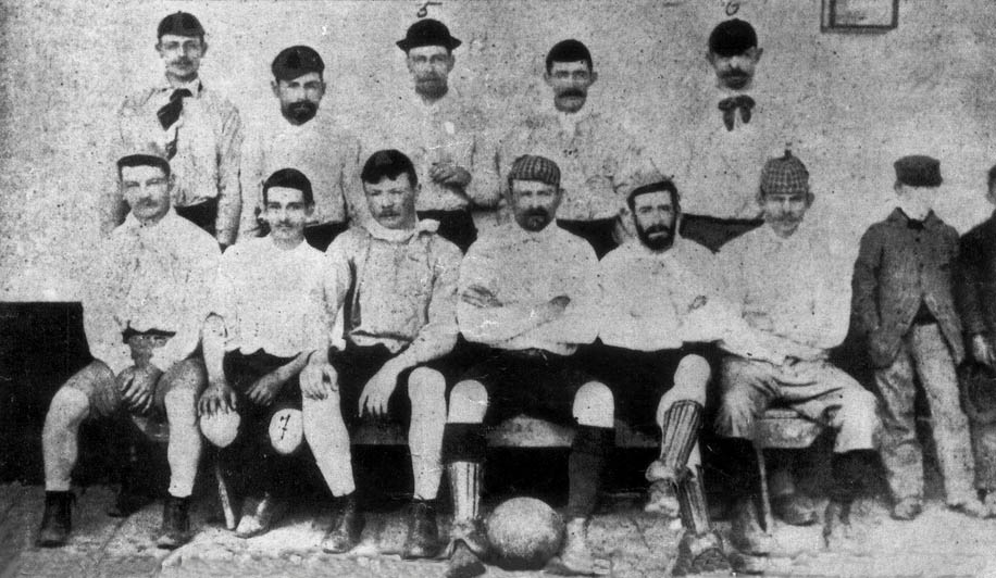 The football team of Lobos Athletic Club of Buenos Aires Province. The photo was taken in 1892, the year the club was established. The team still wore the light blue jersey, then changed by the red and black striped uniform that remains nowadays. Players are: (stood): Carlos Buchanan, Juan Braken, José Garrahan, T. Walsh, Miguel Braken. (seated): Eduardo Buchanan, E. Burbridge, Hoffernan, Mac Keon, Malcolm, Miguel Saery.